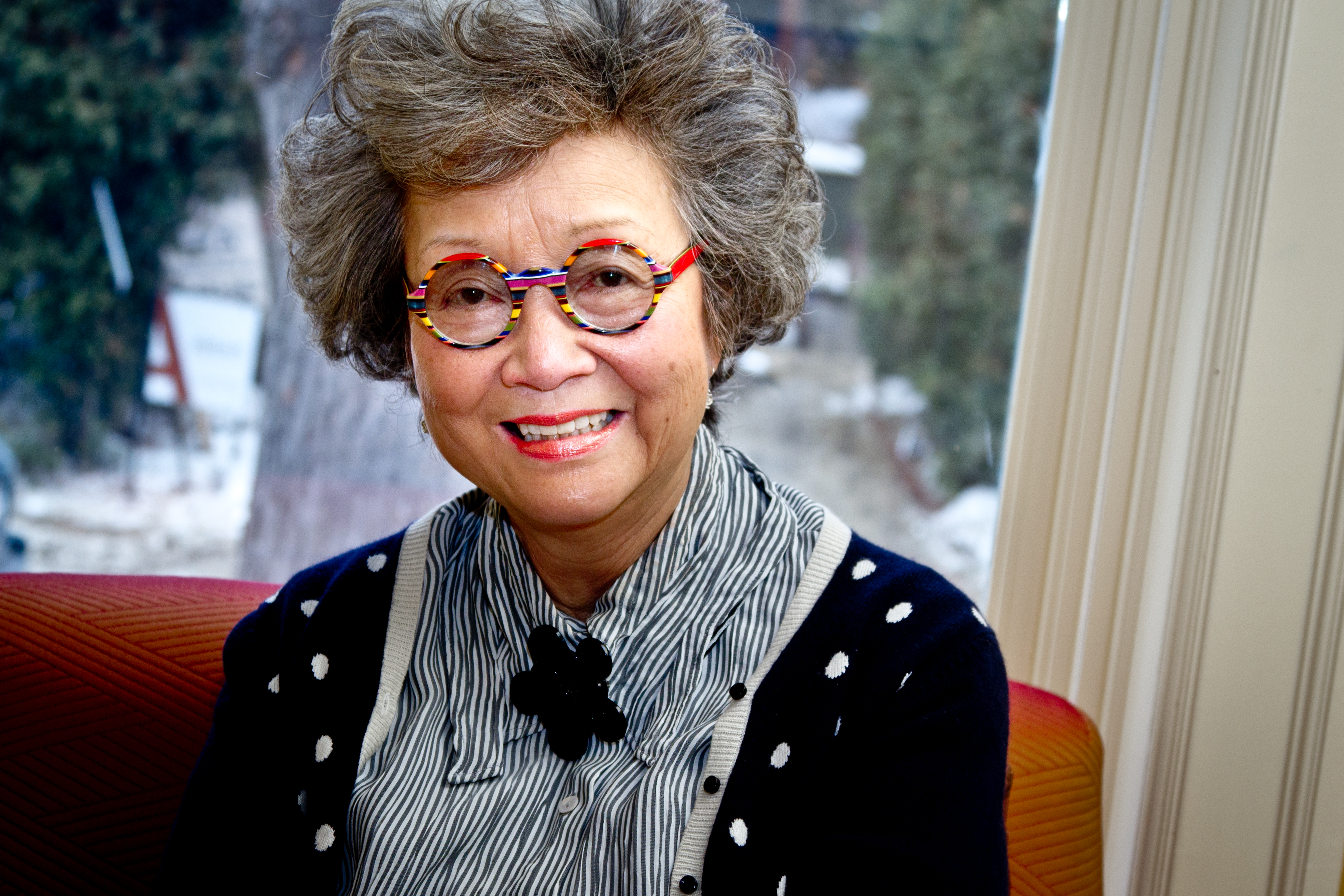 Former Governor General of Canada Adrienne Clarkson